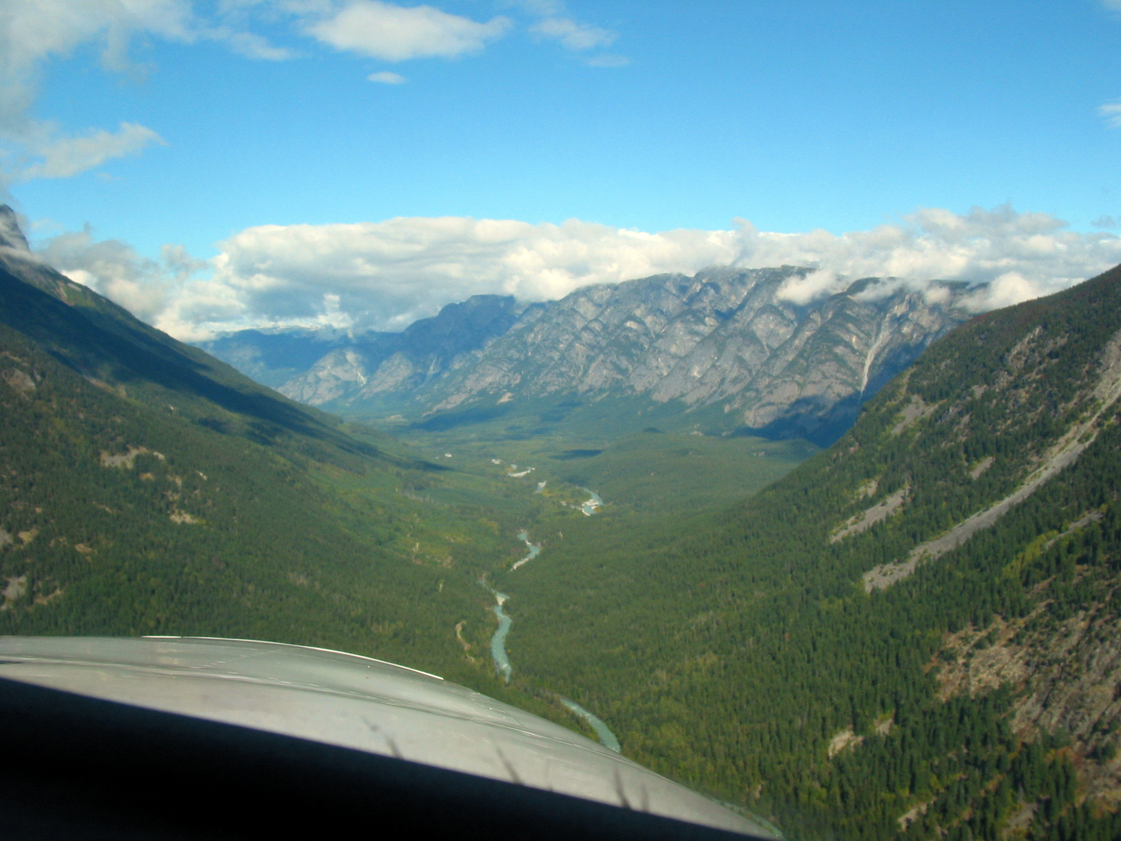 Exiting the Talchako Valley